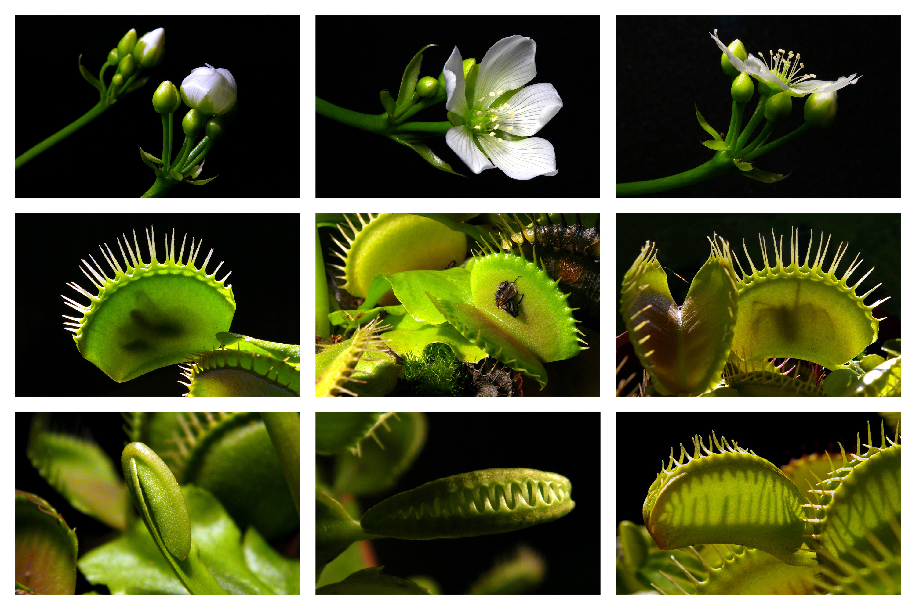 Dionaea muscipula